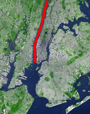 North River © 2004 Matthew Trump based on public domain TERRA image